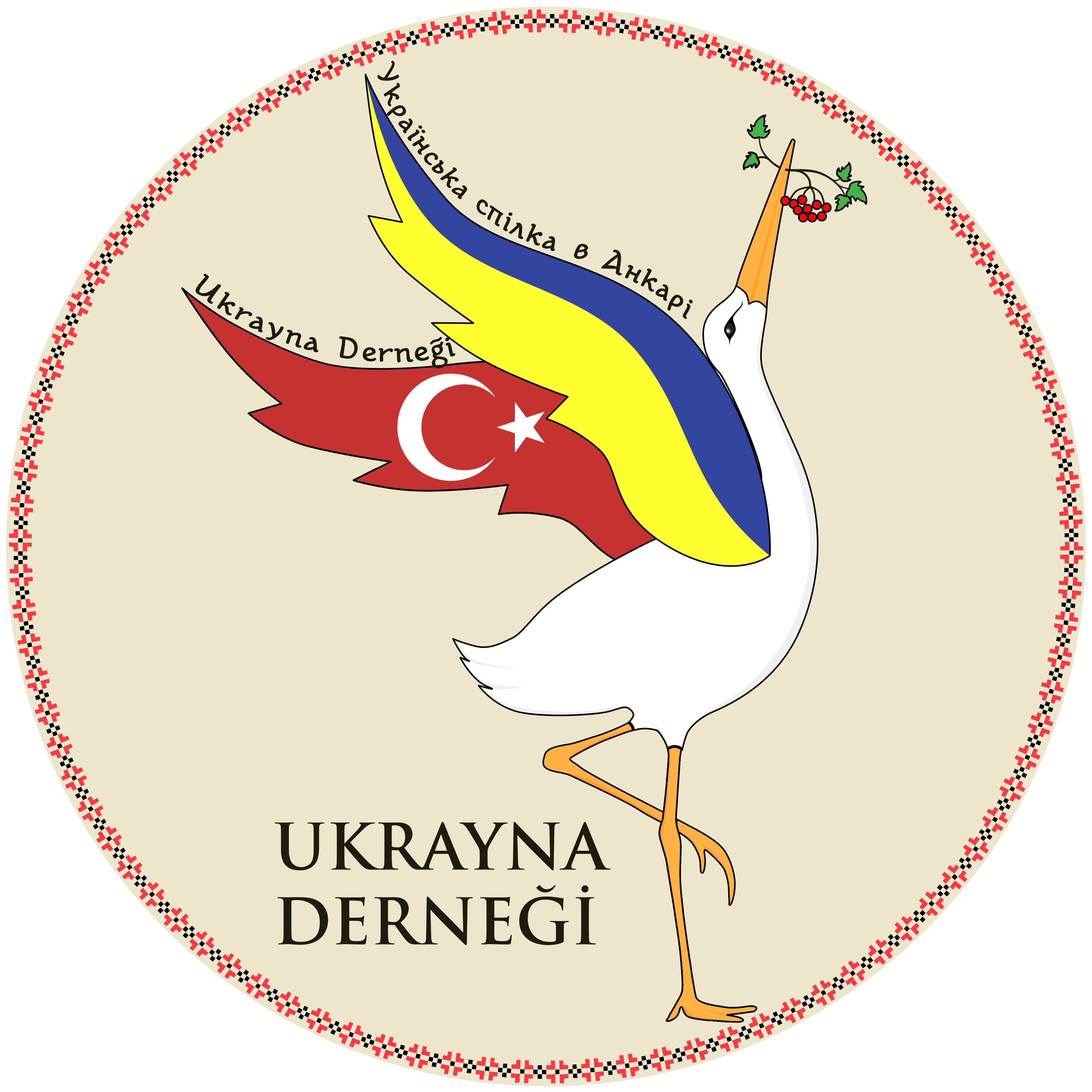 Логотип Української спілки в Анкарі